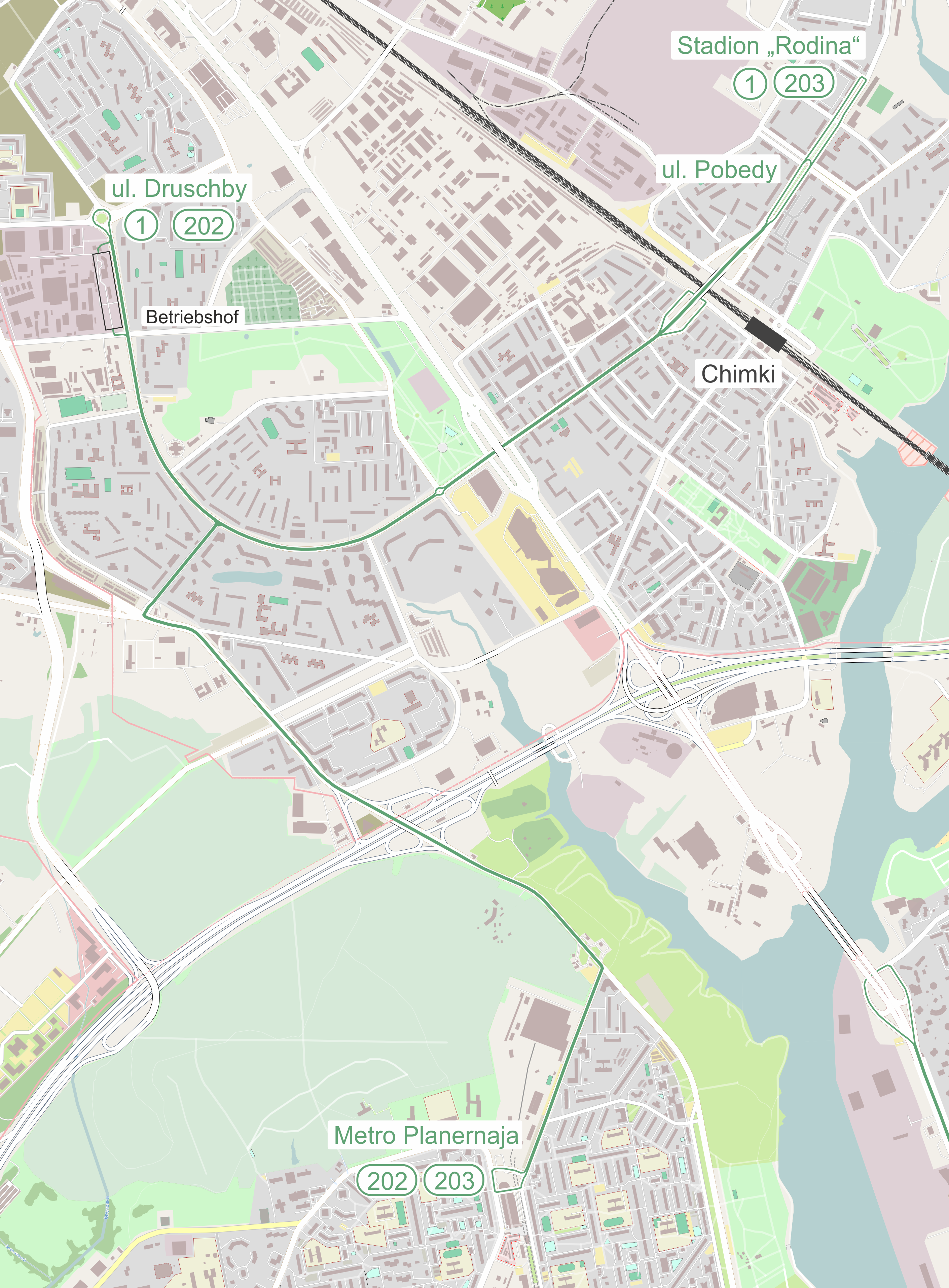 This map may be incomplete, and may contain errors. Don't rely solely on it for navigation.